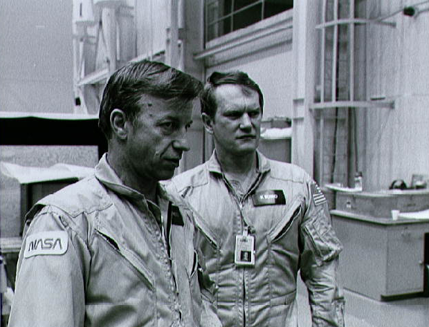 Astronauts Paul J. Weitz, left, and Karol J. Bobko talk with their fellow STS-6 crew members during a break in training inside the Johnson Space Center's shuttle mockup and integration laboratory. Weitz is crew commander and Bobko, pilot.